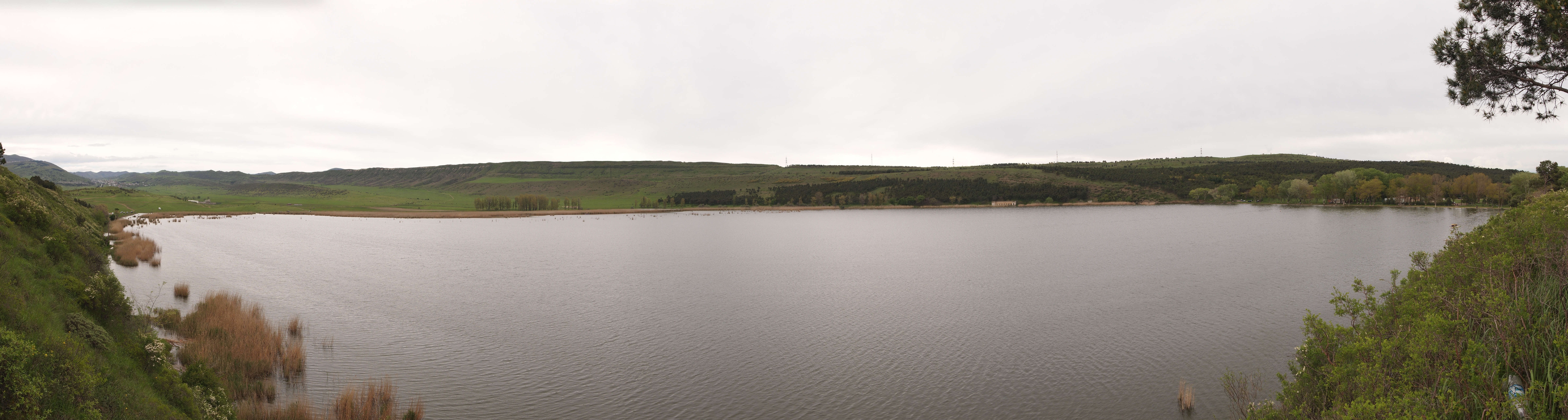 A panorama of Lisi Lake, near Tbilisi.